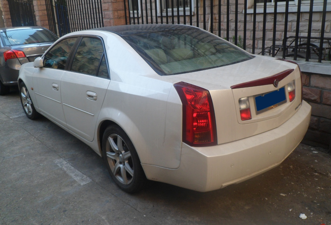 Cadillac CTS photographed in Shanghai, China.